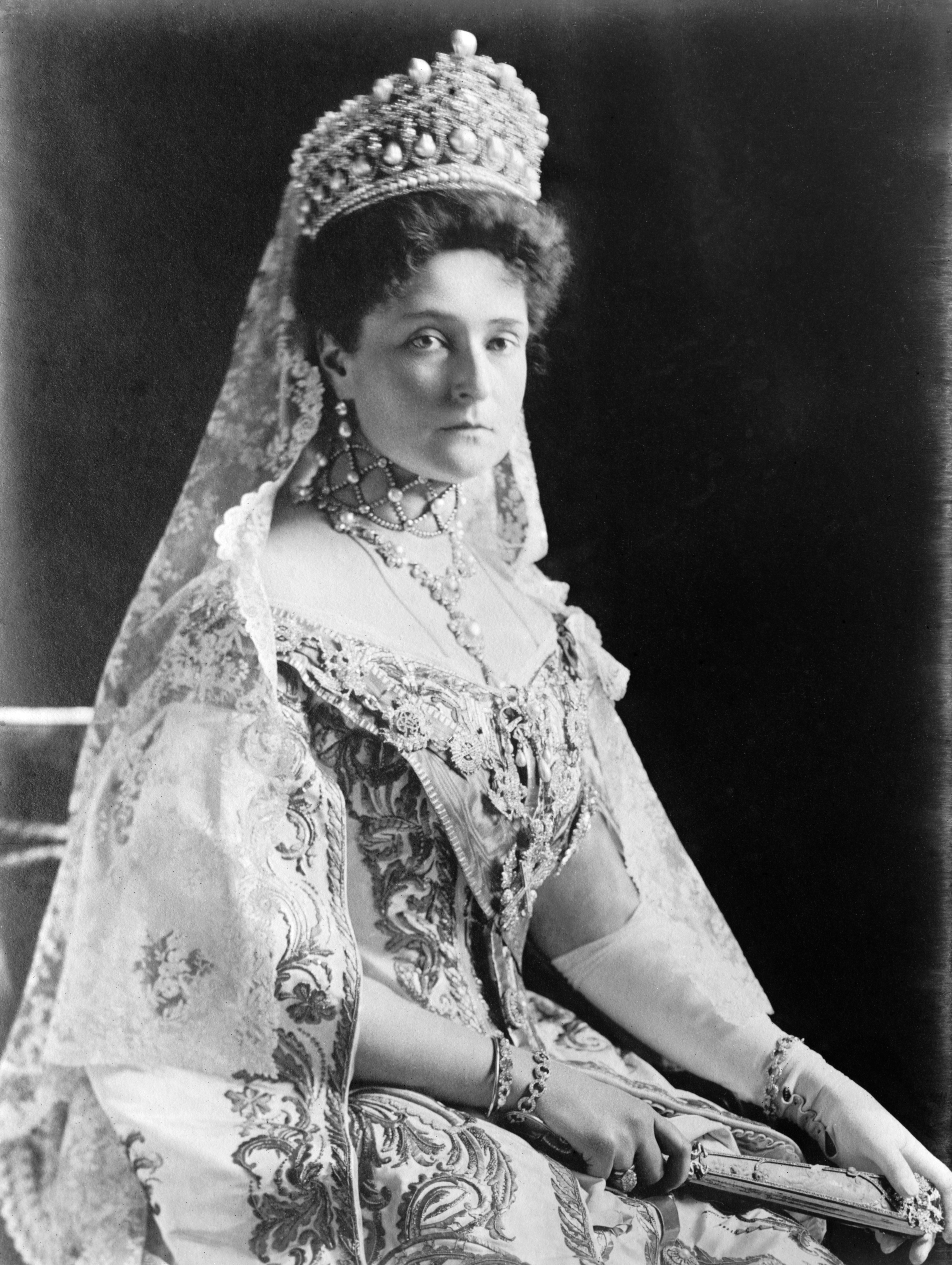 Tsaritsa Alexandra Fyodorovna (Alix of Hesse), seated.